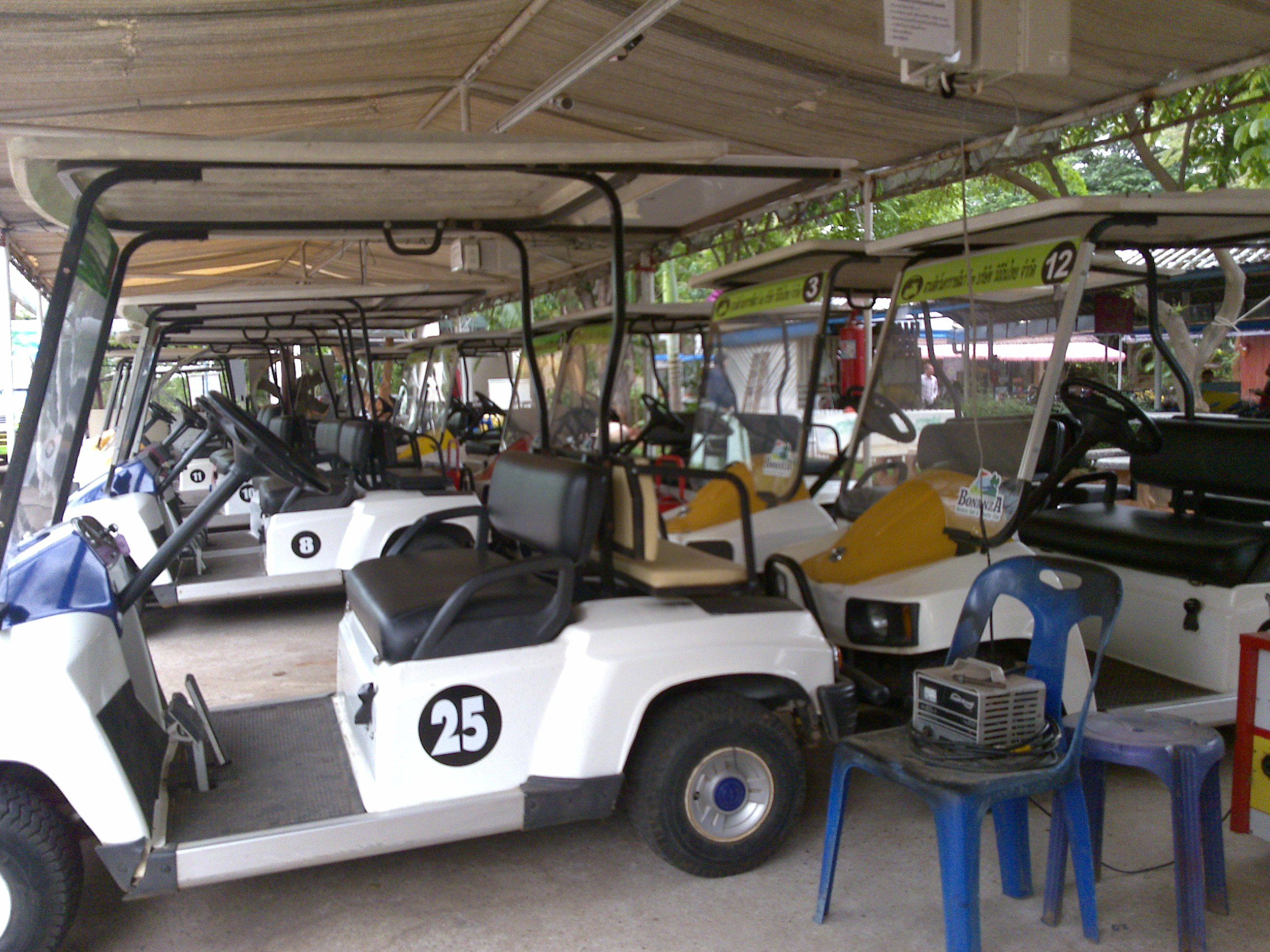 Golf car at Korat Zoo